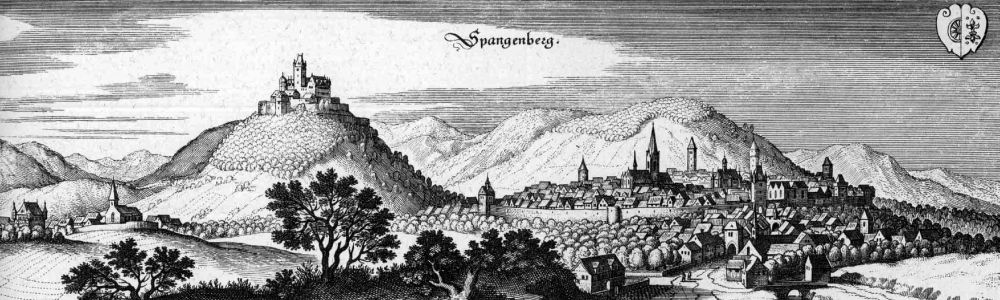 This is a scan of the historical document: Title: Spangenberg - Topographia Hassiae language: german